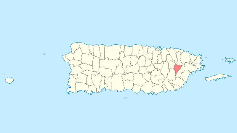 Municipal locator of Puerto Rico